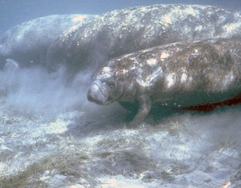 This group of three West Indian manatees (Trichechus manatus) was photographed while feeding on seagrass.